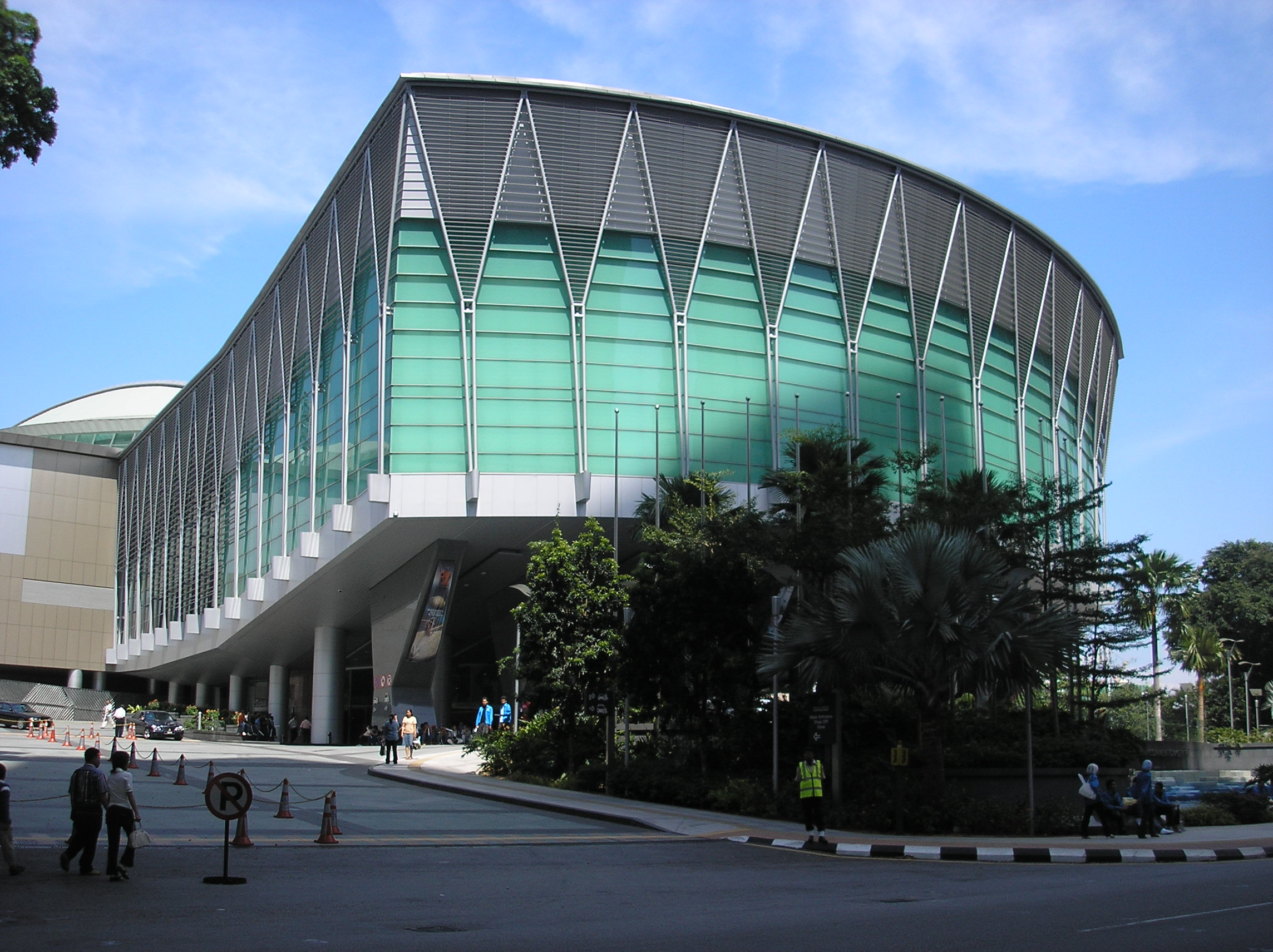 The street entrance of the Kuala Lumpur Convention Centre (KLCC) in the Kuala Lumpur City Centre (KLCC), Kuala Lumpur, Malaysia, as seen towards the northeast from Jalan Pinang (Penang Road).